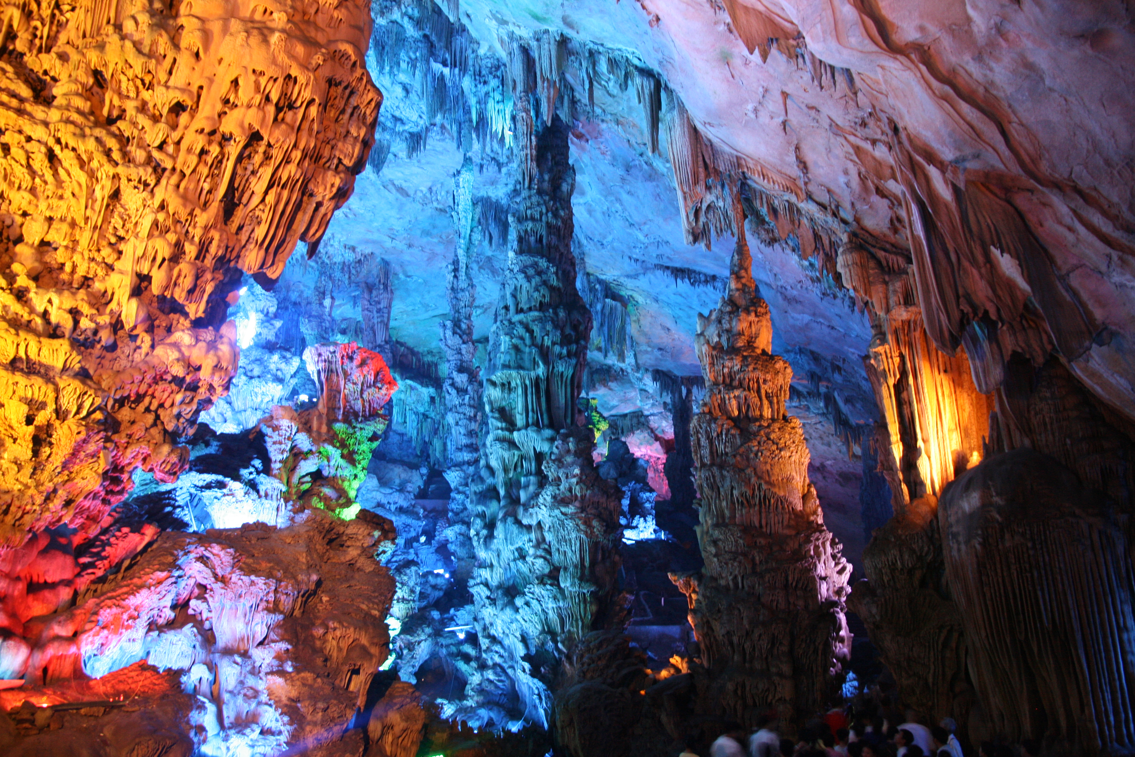 Reed Flute Cave - Nature's Art Palace, Illuminated by multicolored lights, the Reed Flute Cave looks like a dazzling underground palace, which is why the cave is also known as the Nature’s Art Palace. Location: Guilin